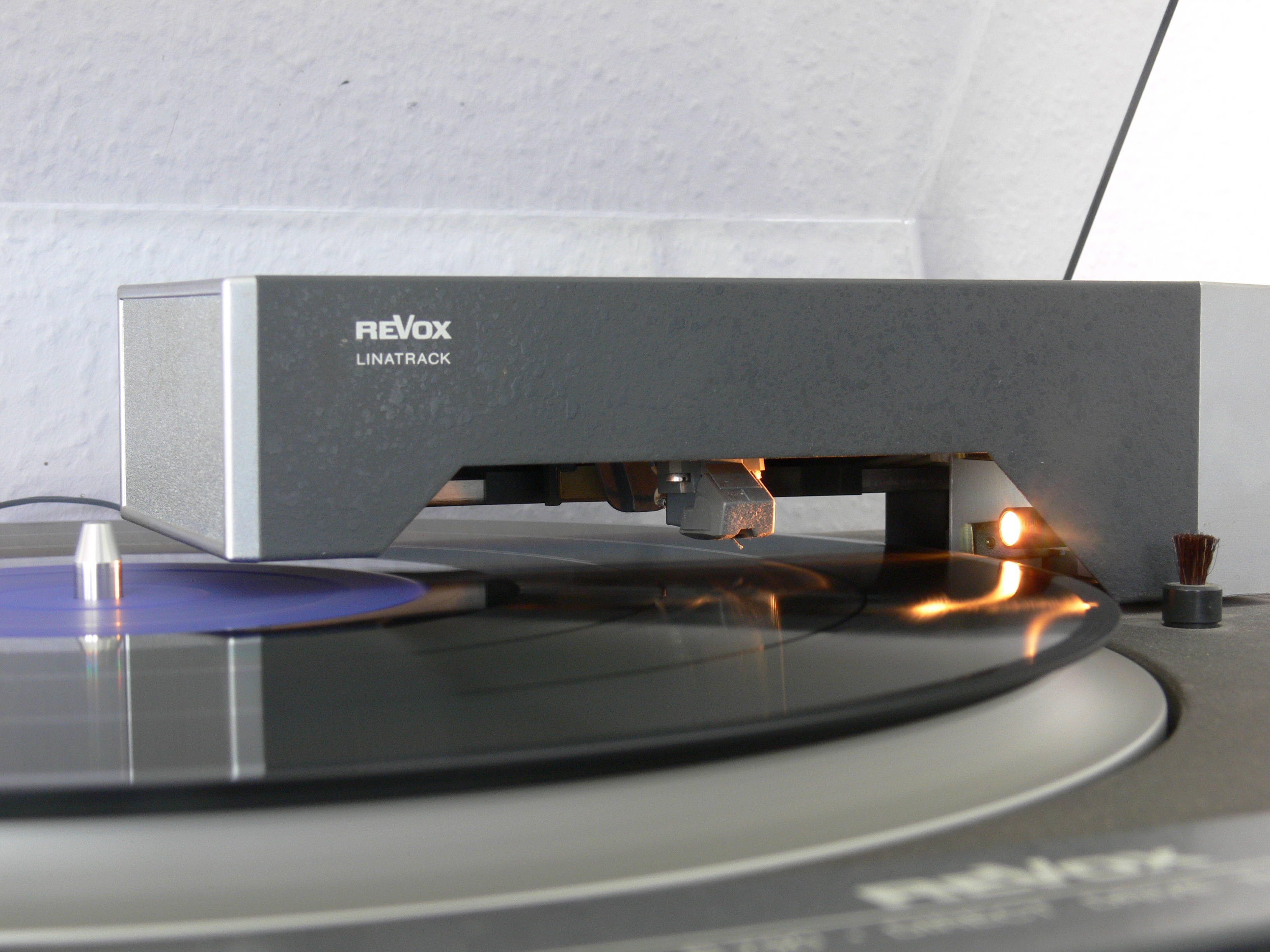 Revox B 790 Turntable